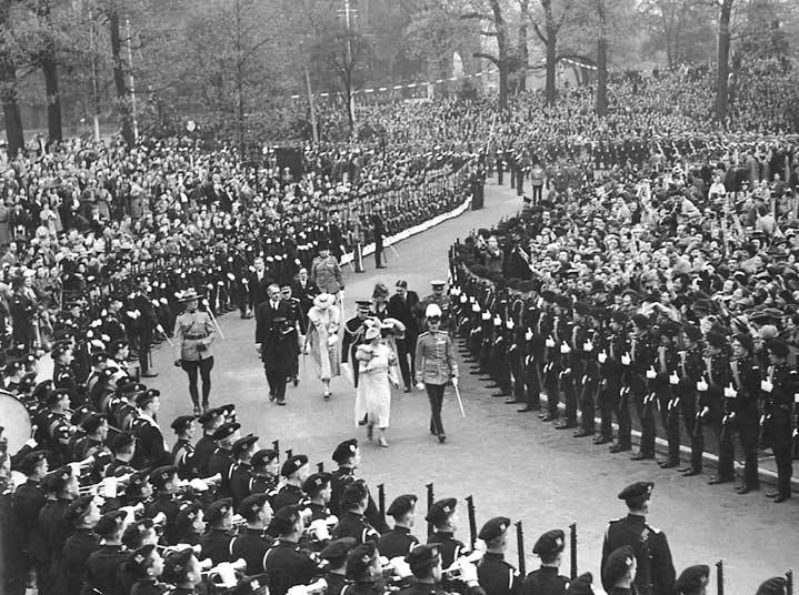 Their Majesties proceed along the ceremonial route in Toronto during the 1939 Royal Tour of Canada. (Toronto, Canada)